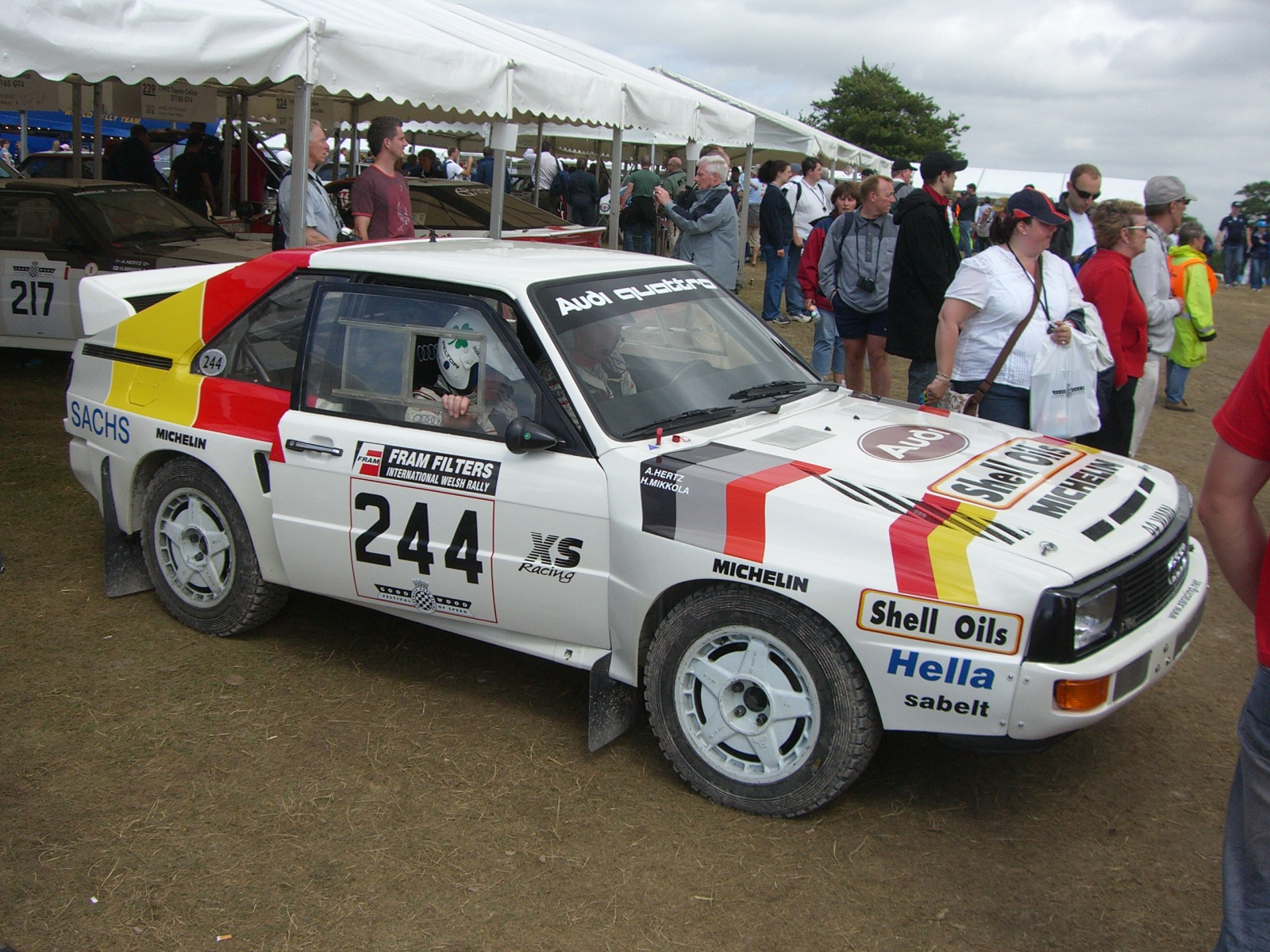 1985 Audi Sport Quattro at the 2006 Goodwood Festival of Speed